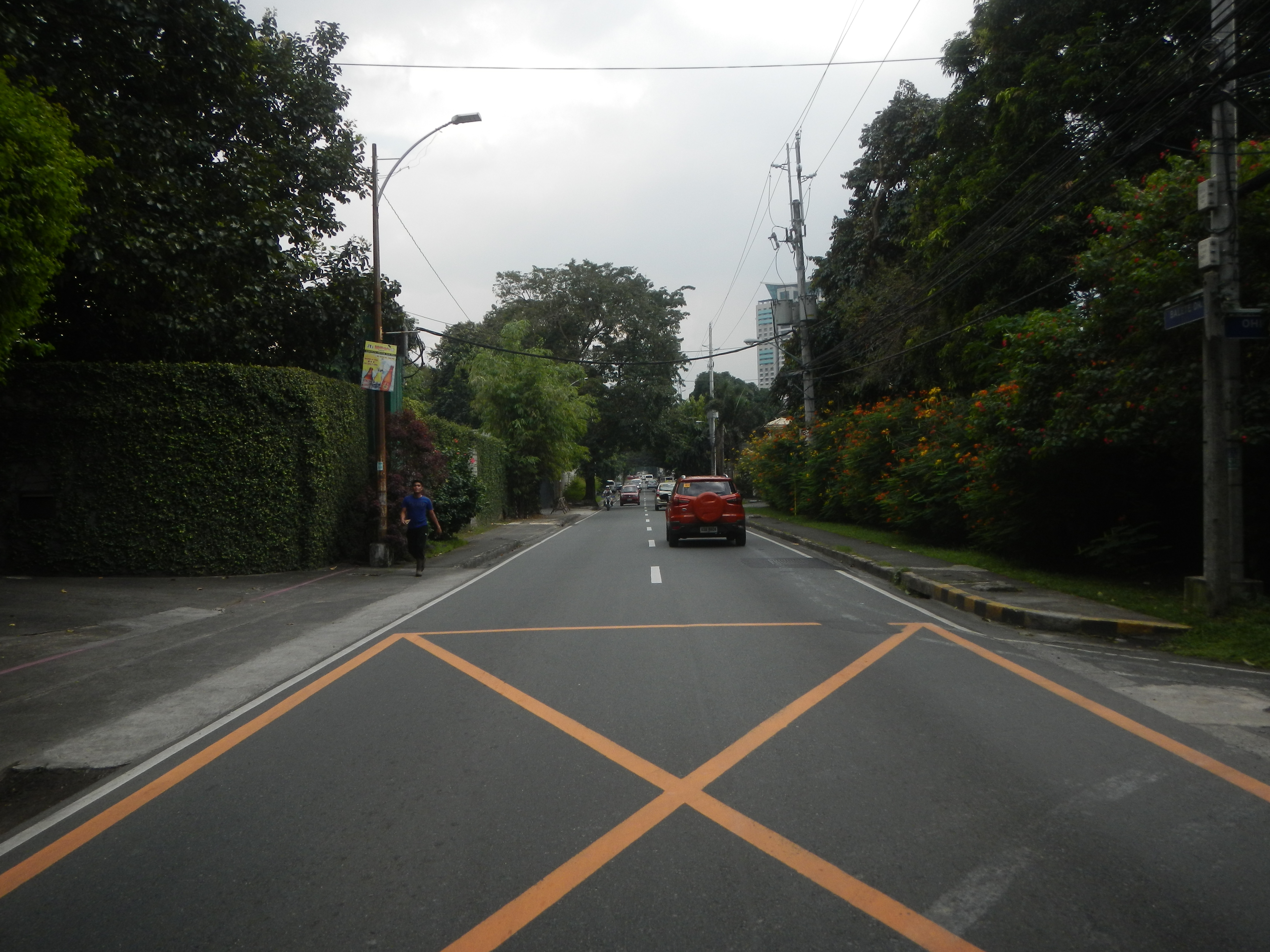 Balete Drive (E. Rodriguez, Sr. Avenue - Bouganvilla Street), Mariana, New Manila, Quezon City in front of Balete Drive Extension Balete Drive Haunted highway List of haunted locations in the Philippines Major roads in Metro Manila in the List of barangays of Metro Manila Legislative districts of Quezon City Districts 3, Barangays of Quezon City, Barangay Kristong Hari 14°37'28"N 121°1'31"E beside Mariana 14°37'1"N 121°2'13"E New Manila, Quezon City upon the List of rivers and estuaries in Metro Manila Diliman Creek from San Juan River (Metro Manila) Estuaries in Cubao, Quezon City along Aurora Boulevard (Note: Judge Florentino Floro, the owner, to repeat, Donor Florentino Floro of all these photos hereby donate gratuitously, freely and unconditionally all these photos to and for Wikimedia Commons, exclusively, for public use of the public domain, and again without any condition whatsoever).